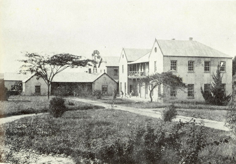 Inanda Seminary-Original Building - Edwards Hall, Lucy Lindley Hall behind